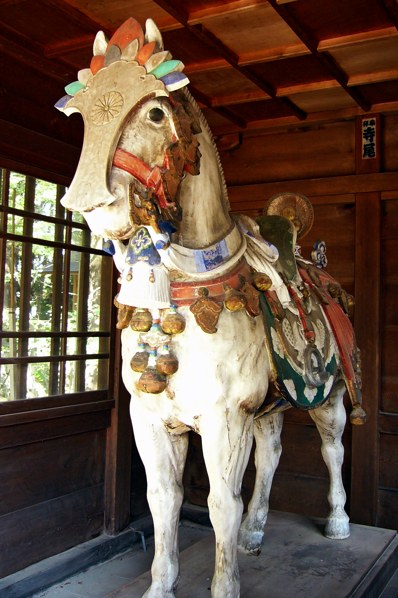 Hotaka-jinja in Azumino, Nagano prefecture, Japan